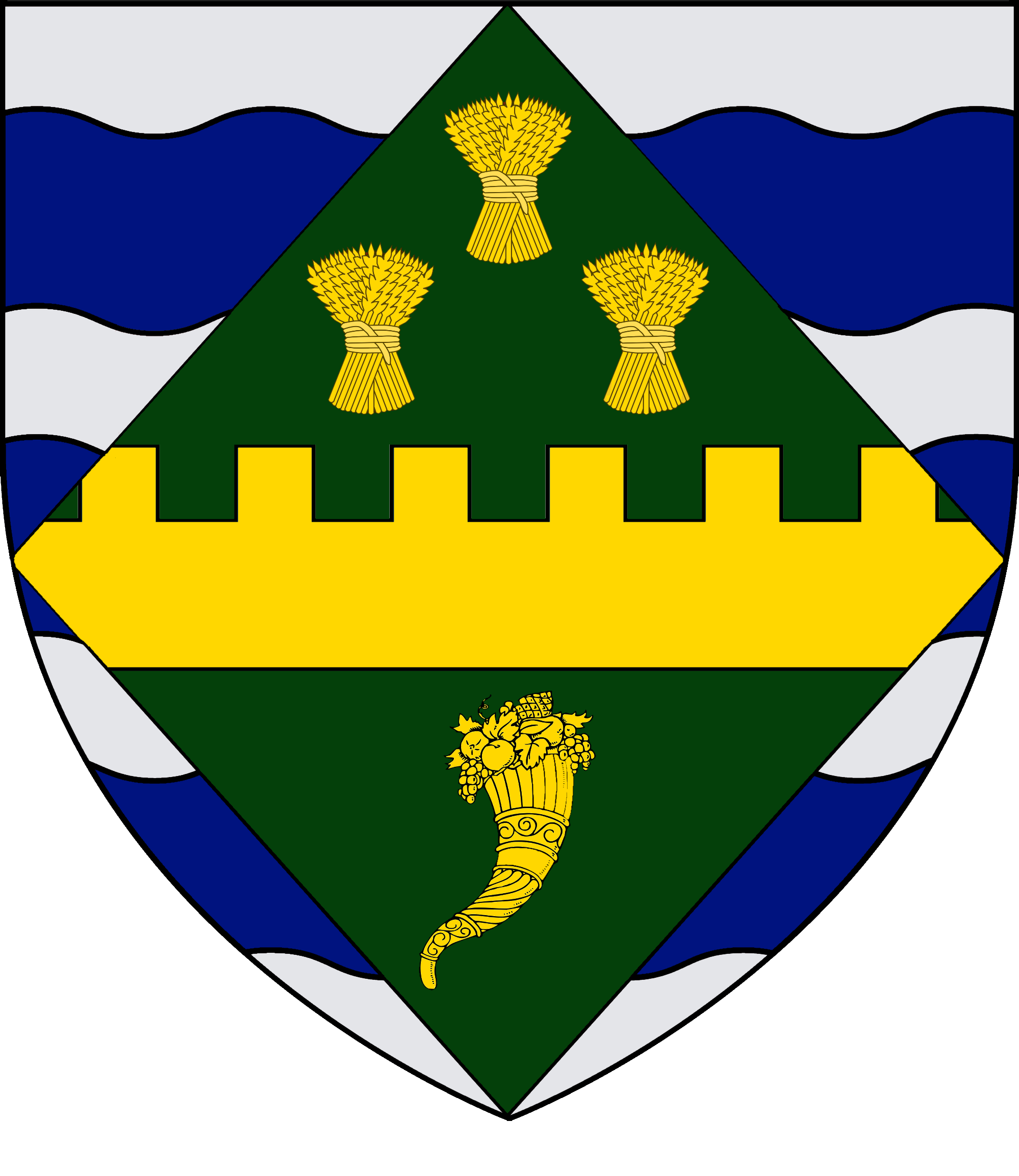 Coat of arms of the English county of Huntingdonshire, granted in 1937. Blazon: Barry wavy argent and azure, a lozenge throughout vert charged with a fess embattled on the upper side between in chief three garbs one and two and in base a cornucopia Or.